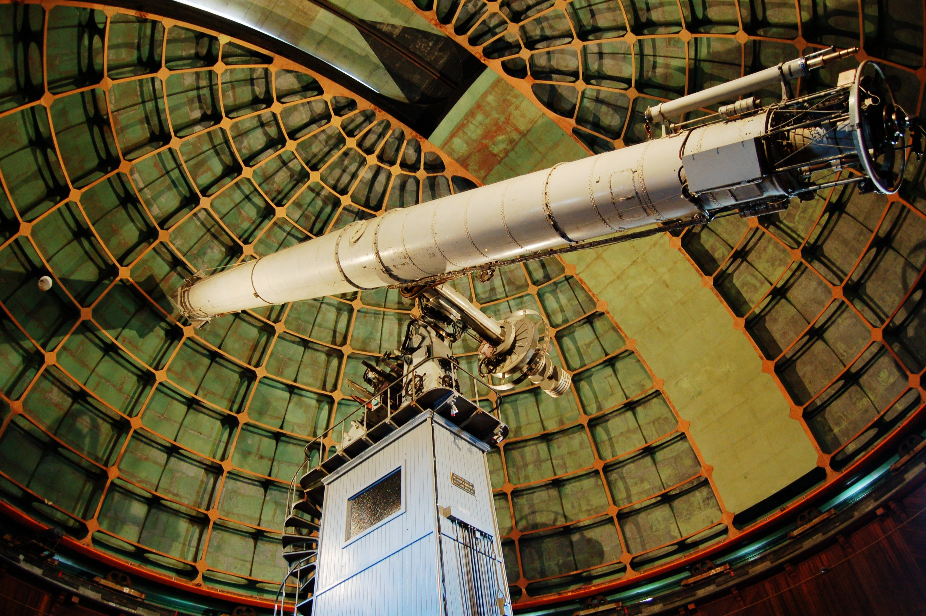 one of the two biggest refractors in the world. I can't explain how greedy it was to end there by chance, and realize I was in front of one of my children dreams. I also, now, remember the speecher suddenly holding her breeze in the middle of a sentence at the sound of the (long) mirror release of my camera !